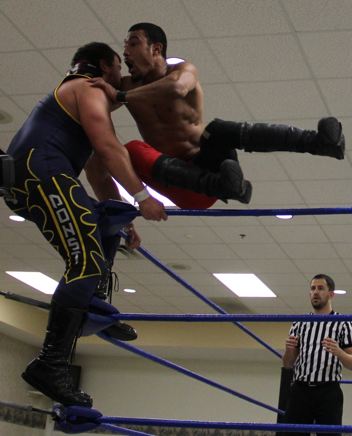 Professional wrestler AR Fox performing the Lo Mein Pain on Tim Donst at a Wrestling is Art event.